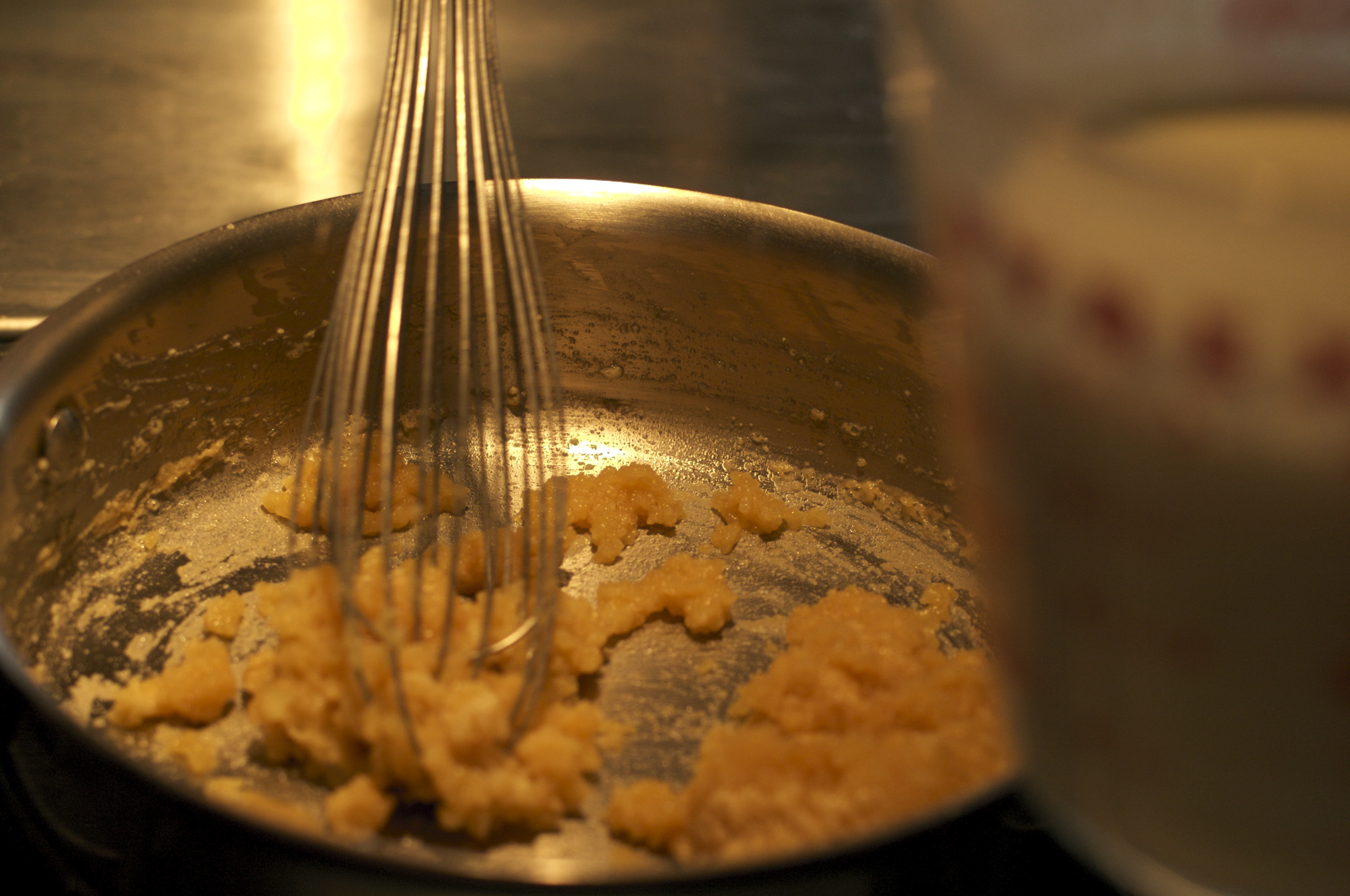 Method of making roux